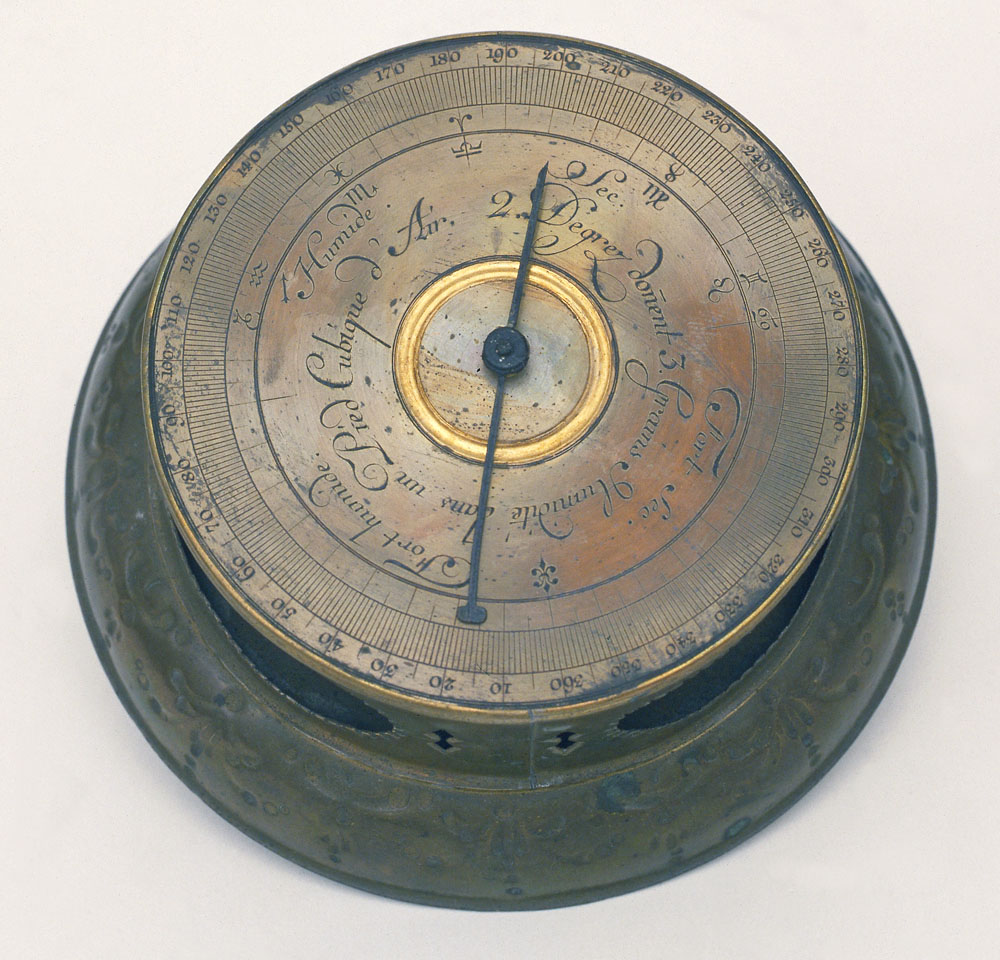 AuthorUnknownDescription